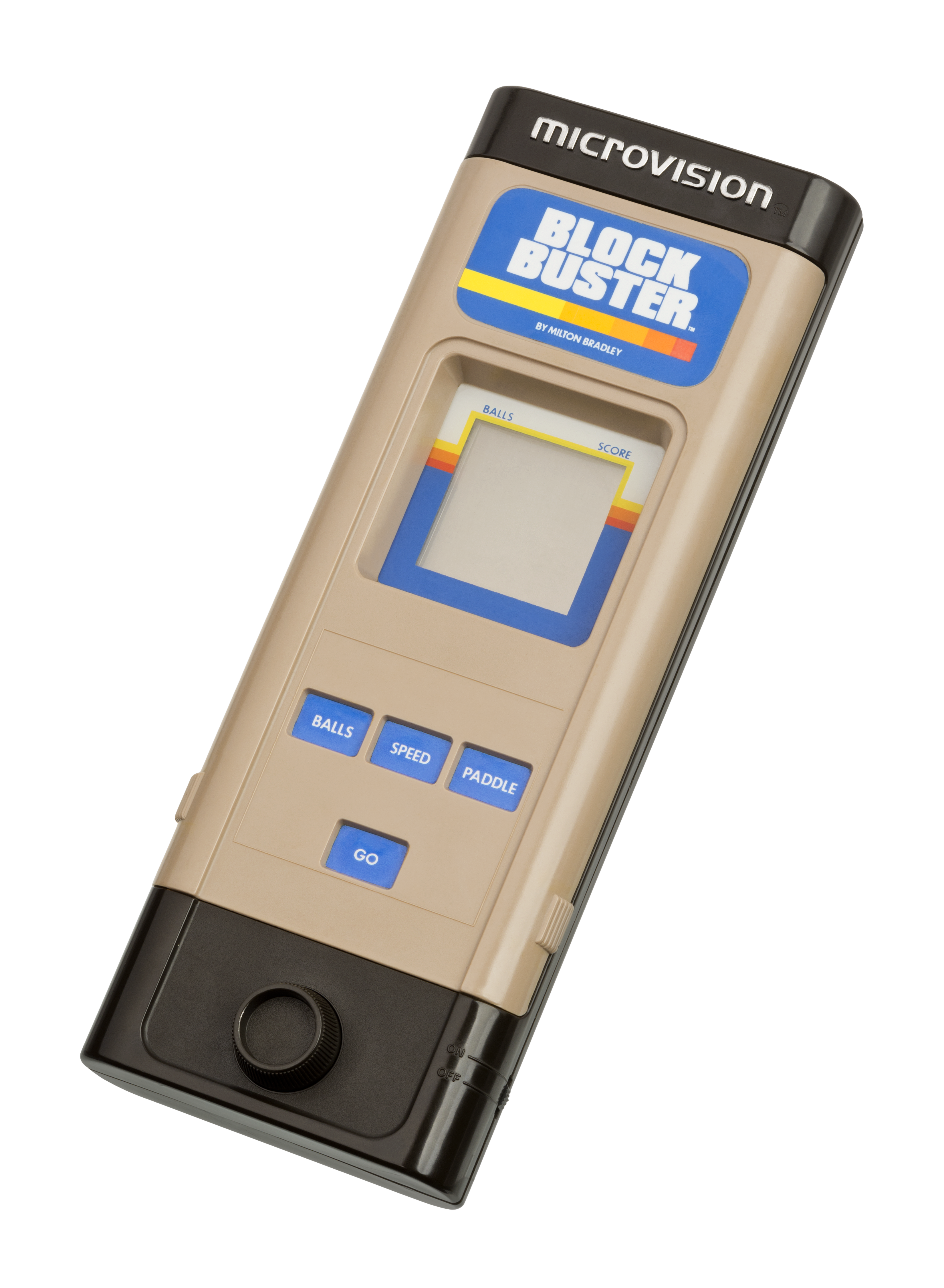 The back of the Milton Bradley Microvision, the first handheld gaming console released in 1979. Built around a 16x16 LCD screen, a grid of touch controls and a paddle, the Microvision could play very simple games. These games came on interchangeable face plates that stored the main processor and custom overlays. The system's limitations lead to little support after the initial launch, and the Microvision was discontinued by 1981.